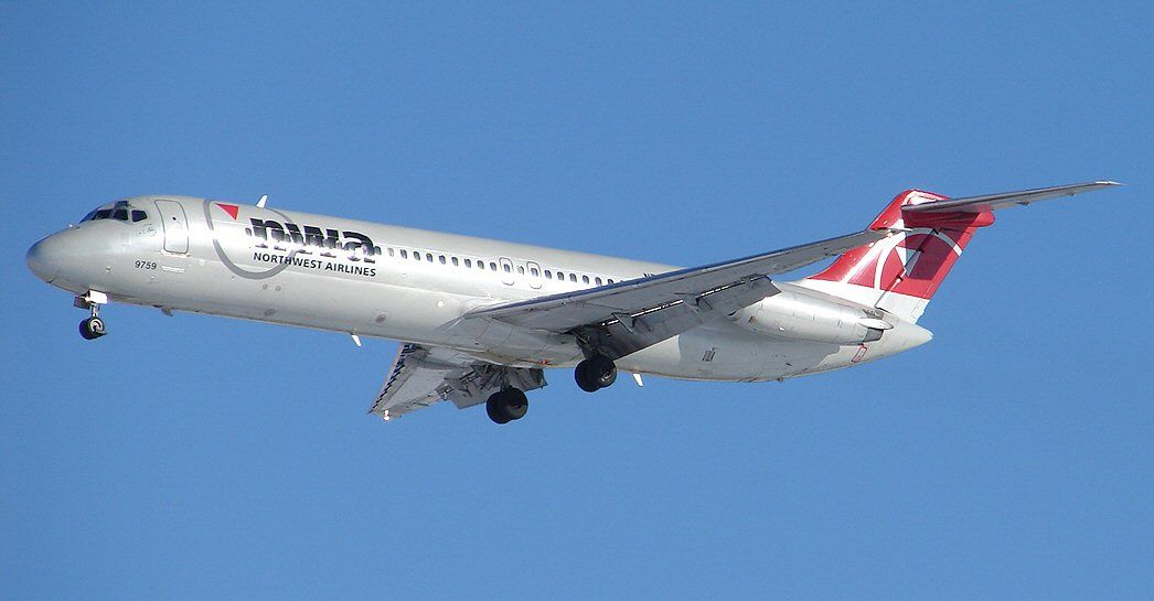 NWA DC-9 at MSP